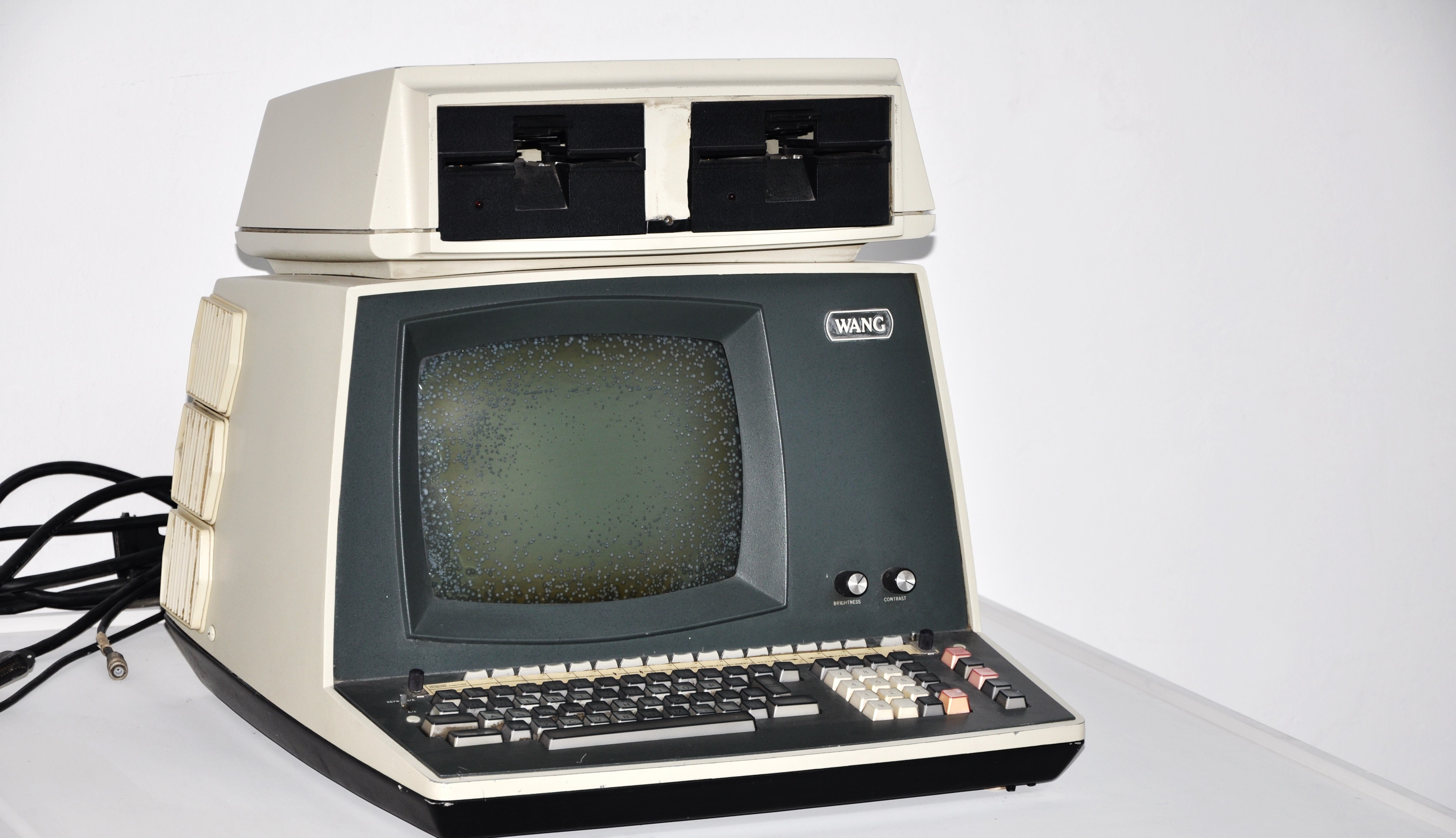 Personal computer Wang 2200 PCS II. It is located in Museum of Science and Technology Belgrade.